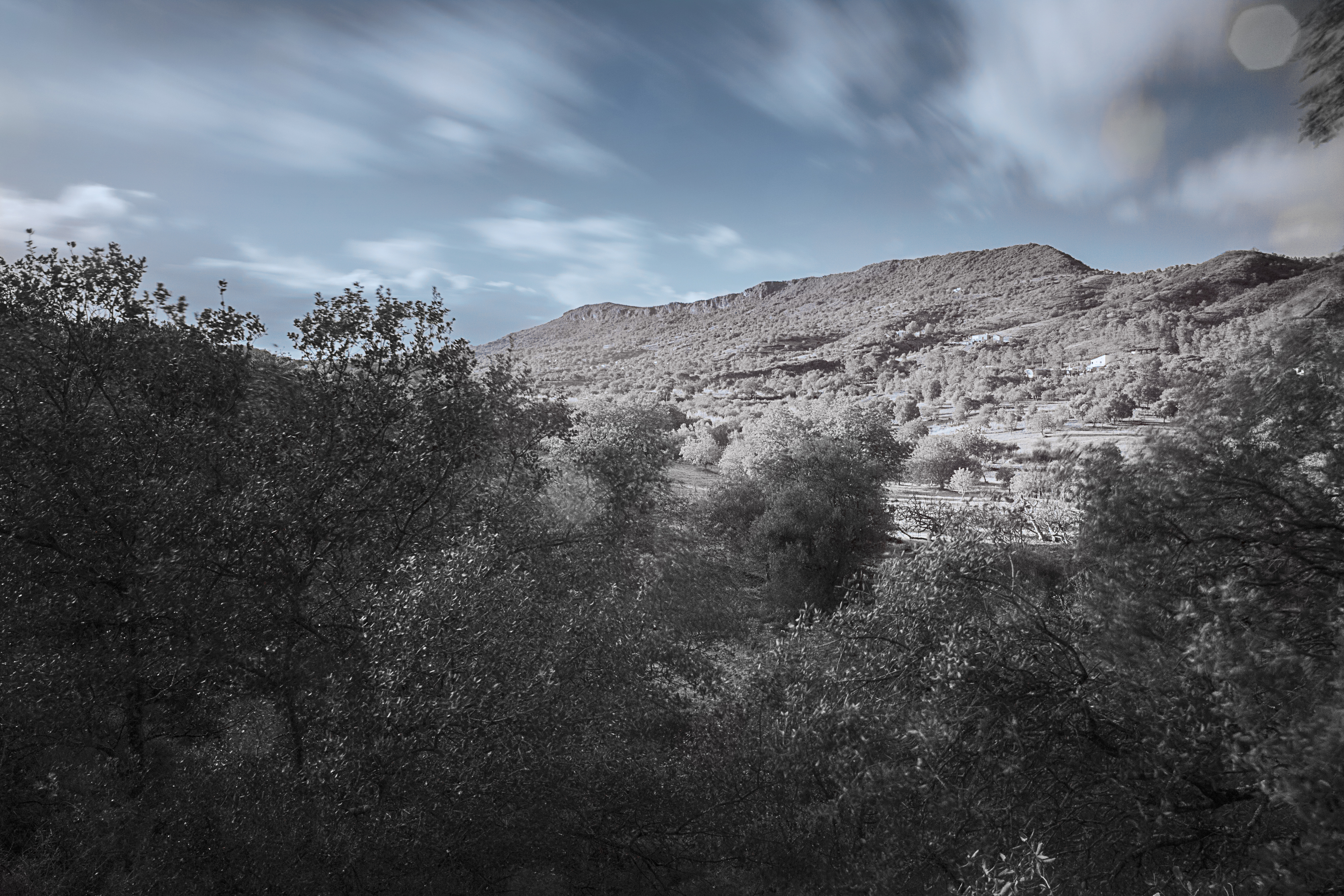 This is a photography of a Site of Community Importance in Portugal with the ID: PTCON0049. Natura2000 entry, EEA entry